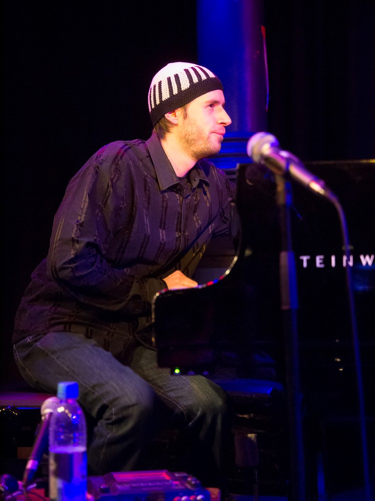 David Helbock, Jazz pianist; Picture taken in Jazz Club Unterfahrt, Munich/Bavaria